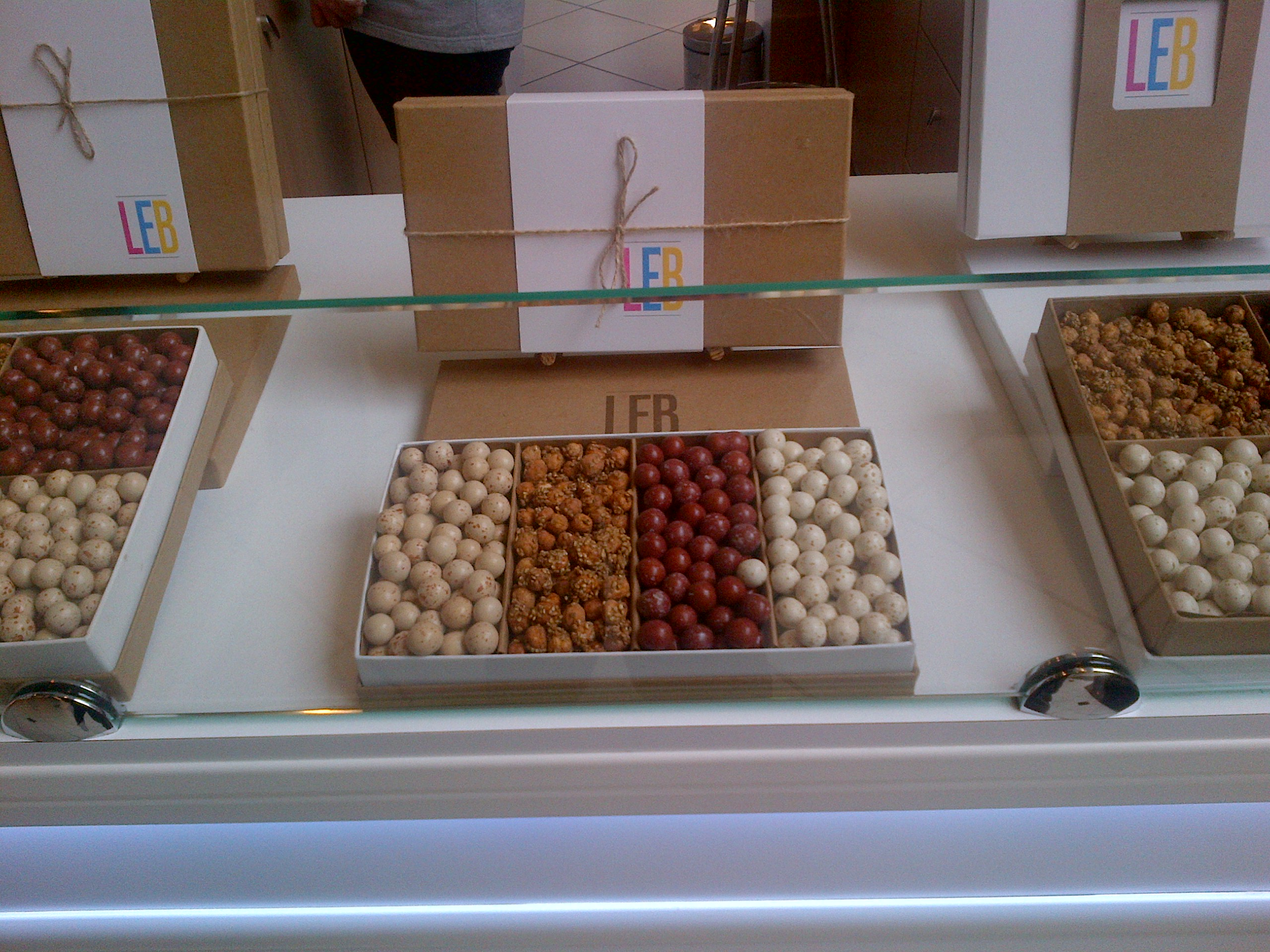 Leblebi (gift pack) from Turkey.